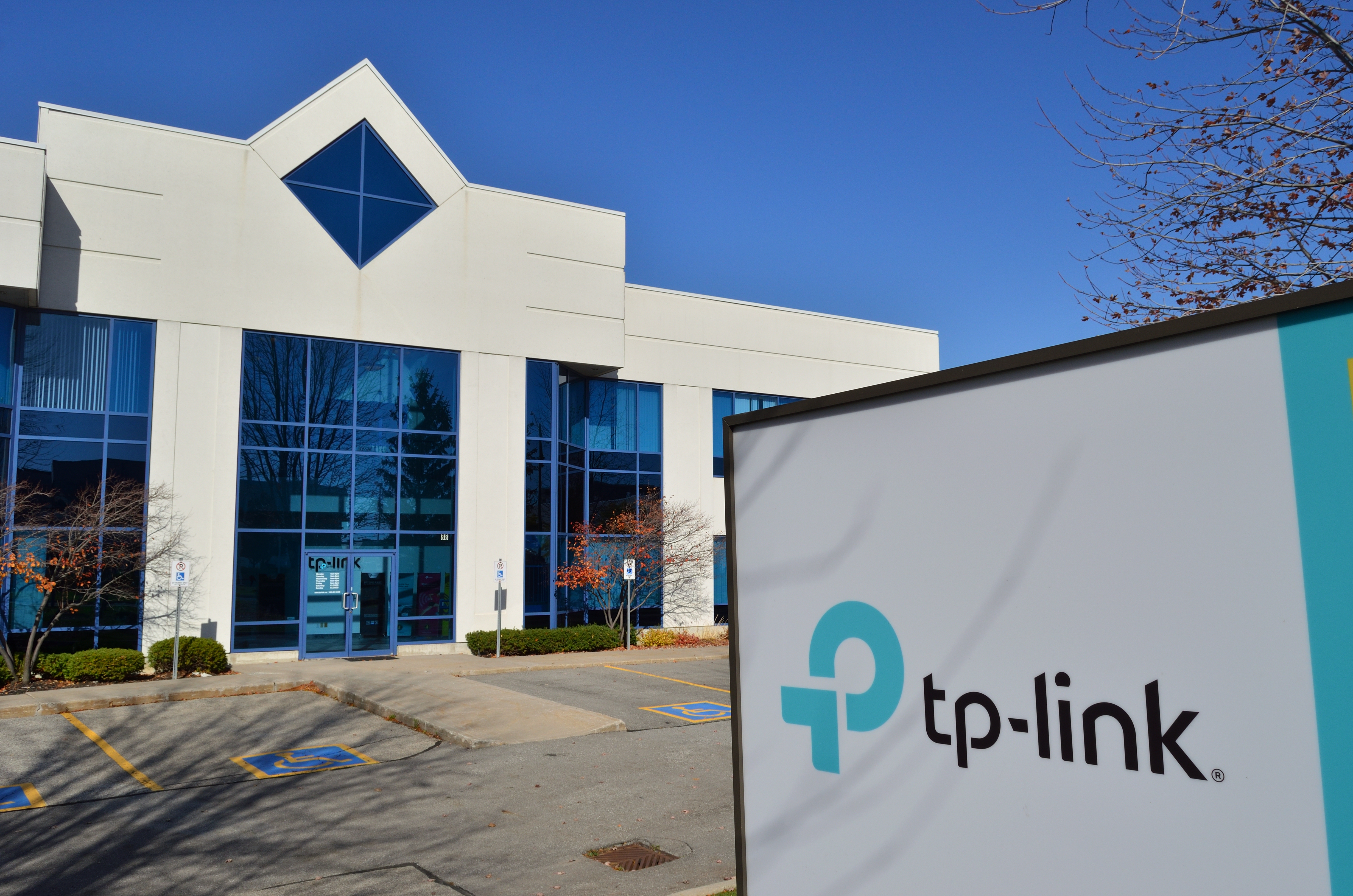 TP-Link Canada - Address: 88 Fulton Way, Richmond Hill, ON L4B 1J5